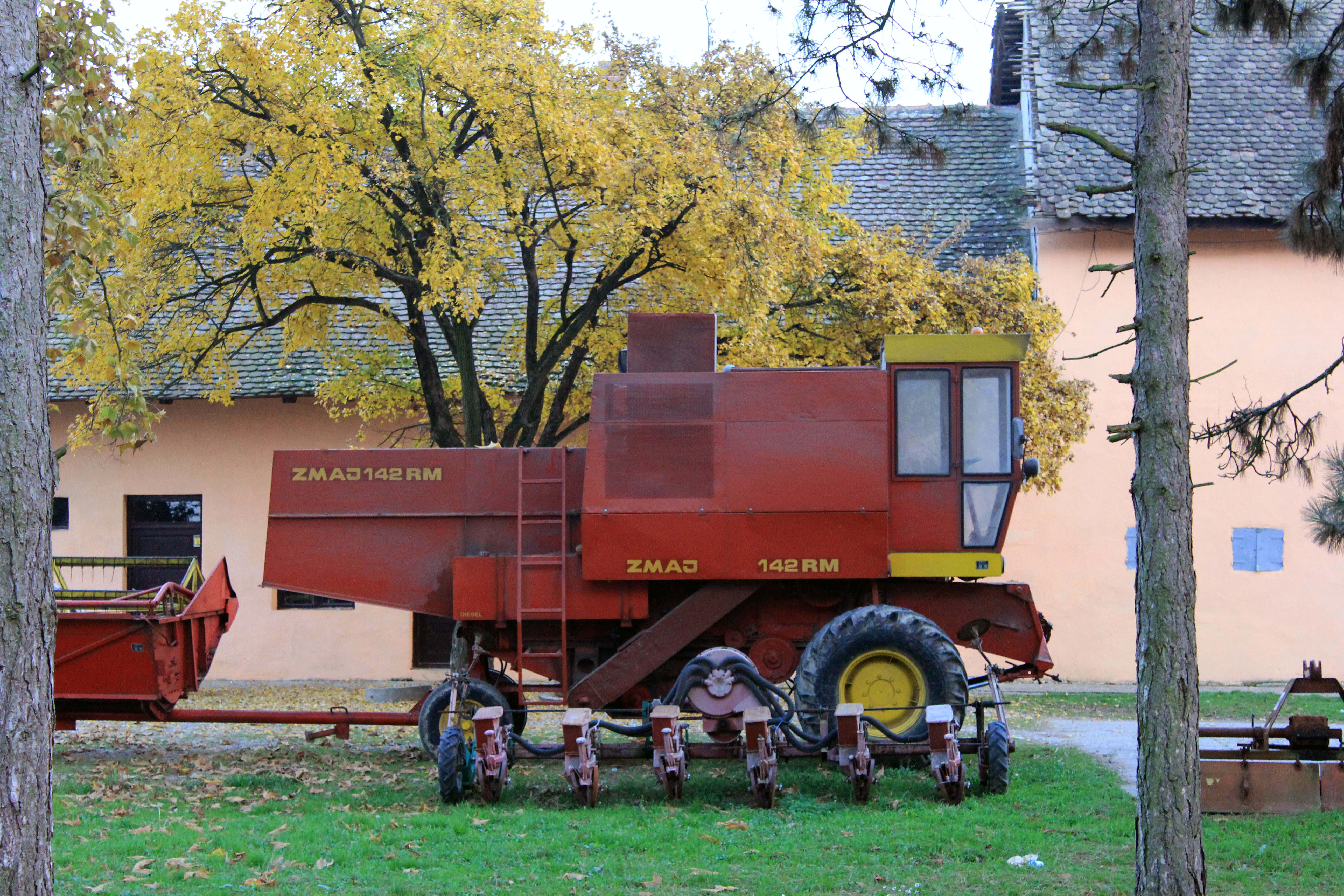 Zmaj 142RM combine harvester of High agriculture school Šabac.